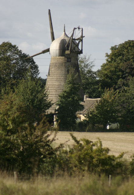 The tower mill at Barnack, Cambridgeshire.